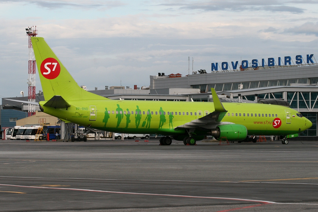 Moscow - Novosibirsk - Yakutsk route and return to Domodedovo home base.